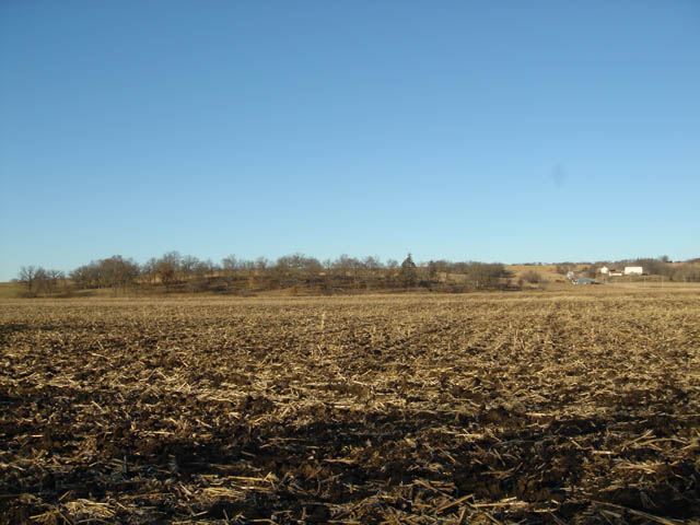 Photo shot myself 1/1/2007 New Year's Day - What was I thinking?